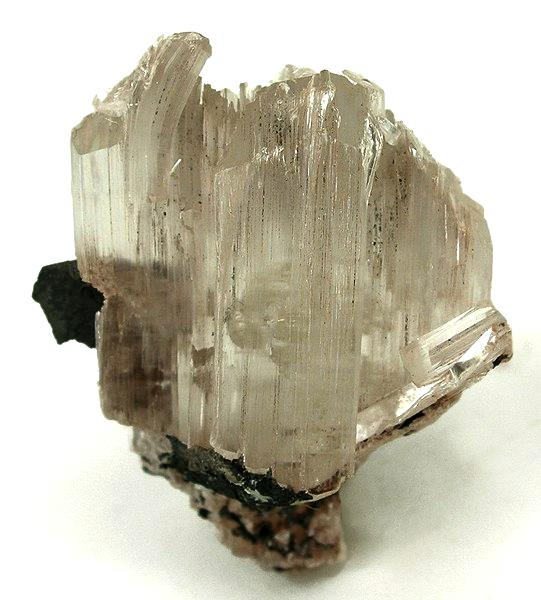 Leiteite Locality: Tsumeb Mine (Tsumcorp Mine), Tsumeb, Otjikoto (Oshikoto) Region, Namibia (Locality at ) Size: 3.0 x 2.4 x 1.2 cm. Leiteite is a very rare zinc arsenate mineral species named in 1977 from a single aberrant specimen found at Tsumeb, and then found sparsely in a few more pockets in the so-called germanium levels of the final and deepest part of the mine. In all the previous years at Tsumeb, none had been found until the miners went down to a third oxidation zone and encountered a bizarrely germanium-rich zone from which new species came in profusion. Ludlockite and leiteite among the most well known. Most of the examples of these species are fibrous. This specimen, however, shows robust crystal faces, and real crystal form. It is also extremely translucent and attractive, whereas most leiteite is opaque, fibrous, and looks more like white asbestos than a mineral specimen. This is a superb example of the species and an important specimen of good size for a leiteite crystal. Ex. Eric Asselborn Collection.